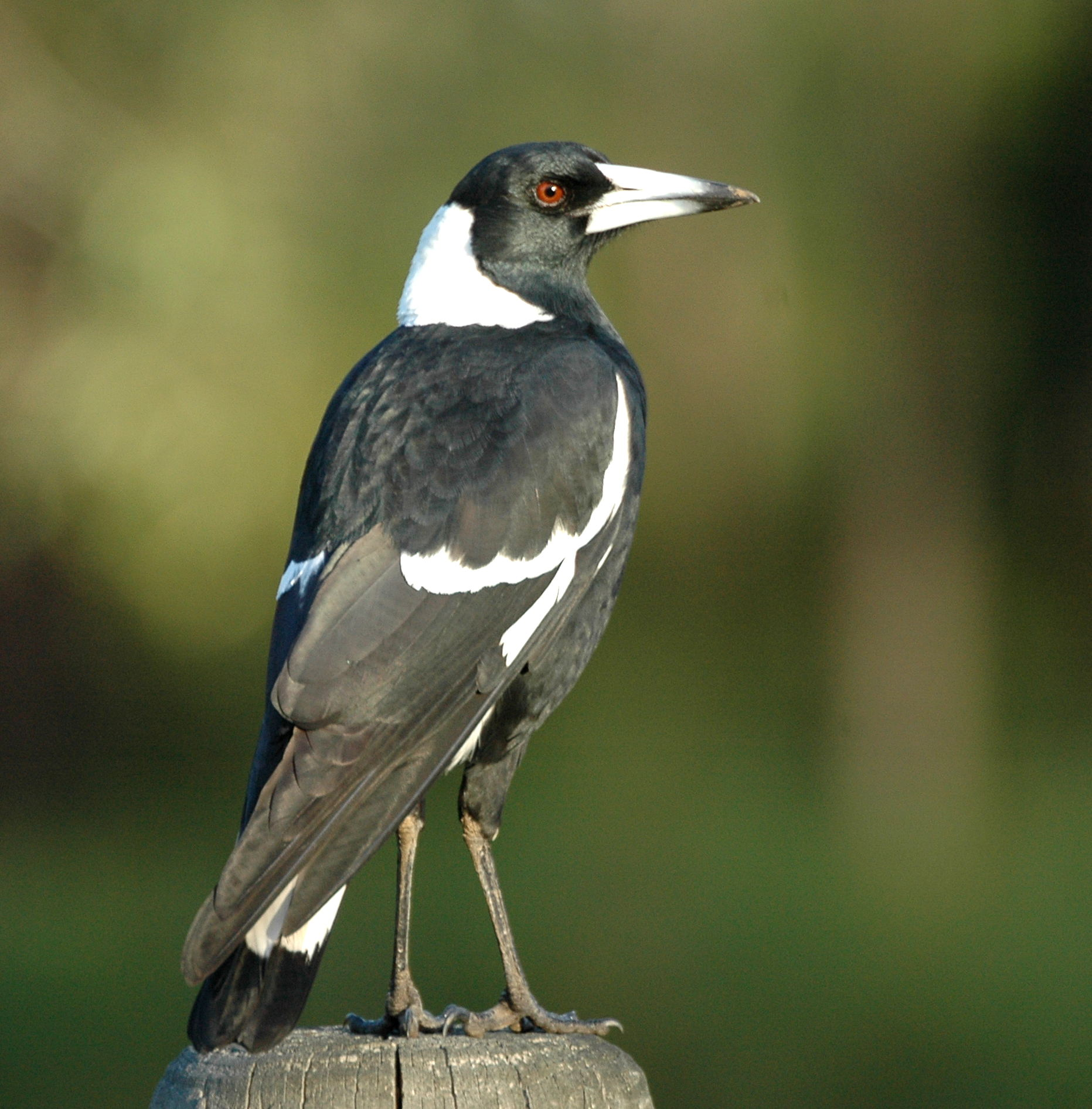 Australian Magpie (Gymnorhina tibicen) Samsonvale Cemetery, SE Queensland, Australia